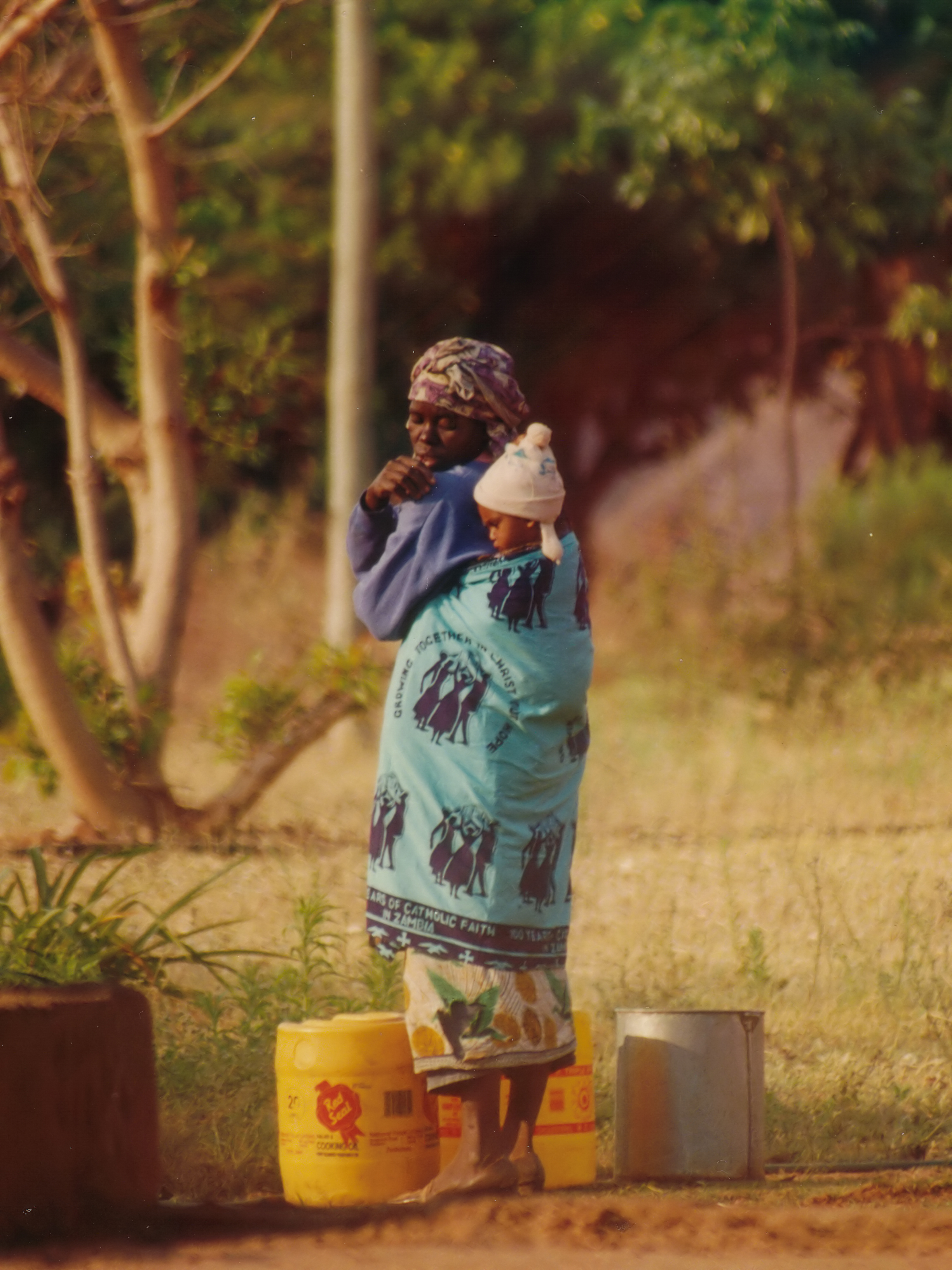 Mother and child hauling water near Chipata, Zambia. Scanned from photograph